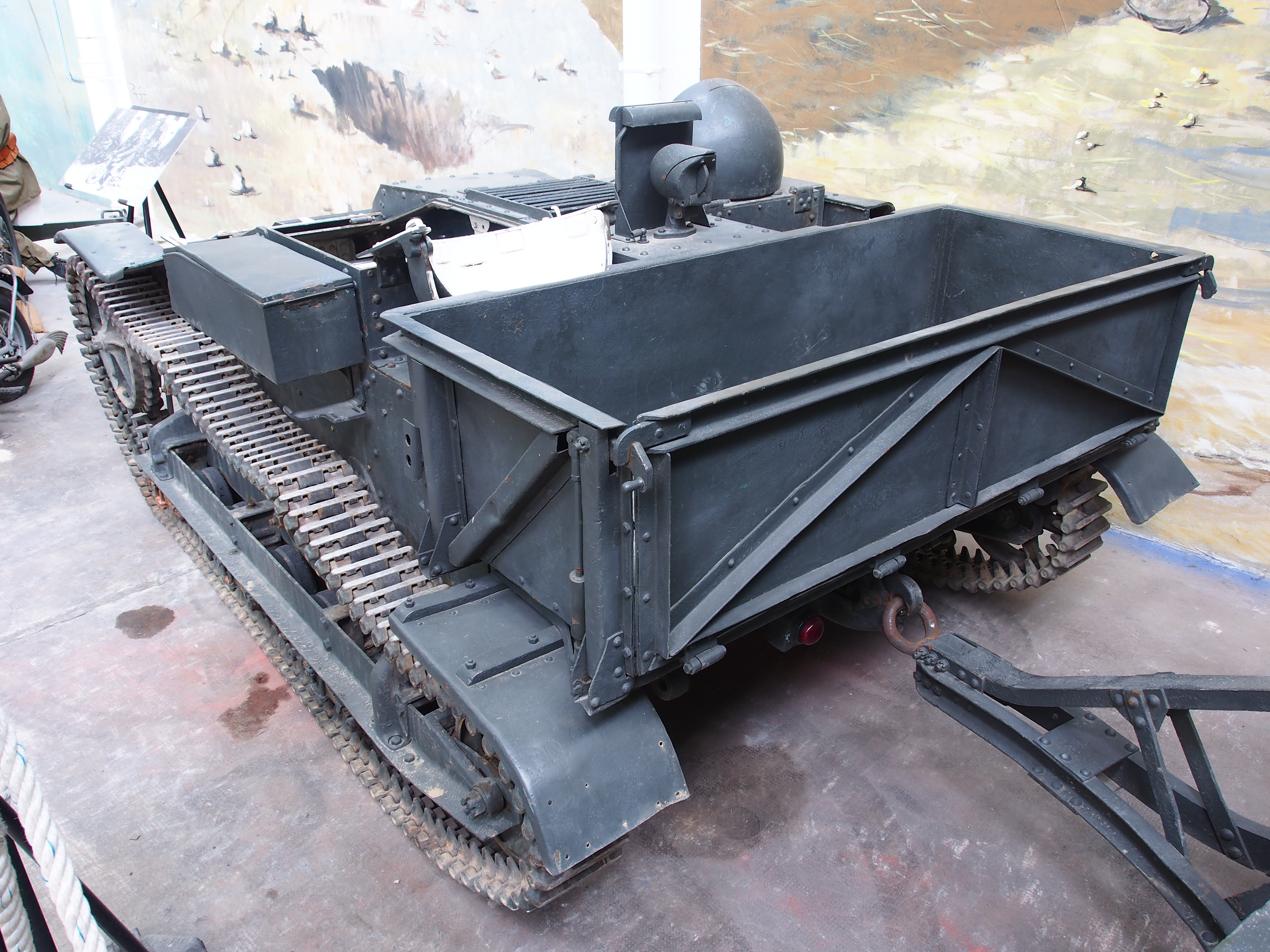 Photographed in the Musée des Blindés, France.